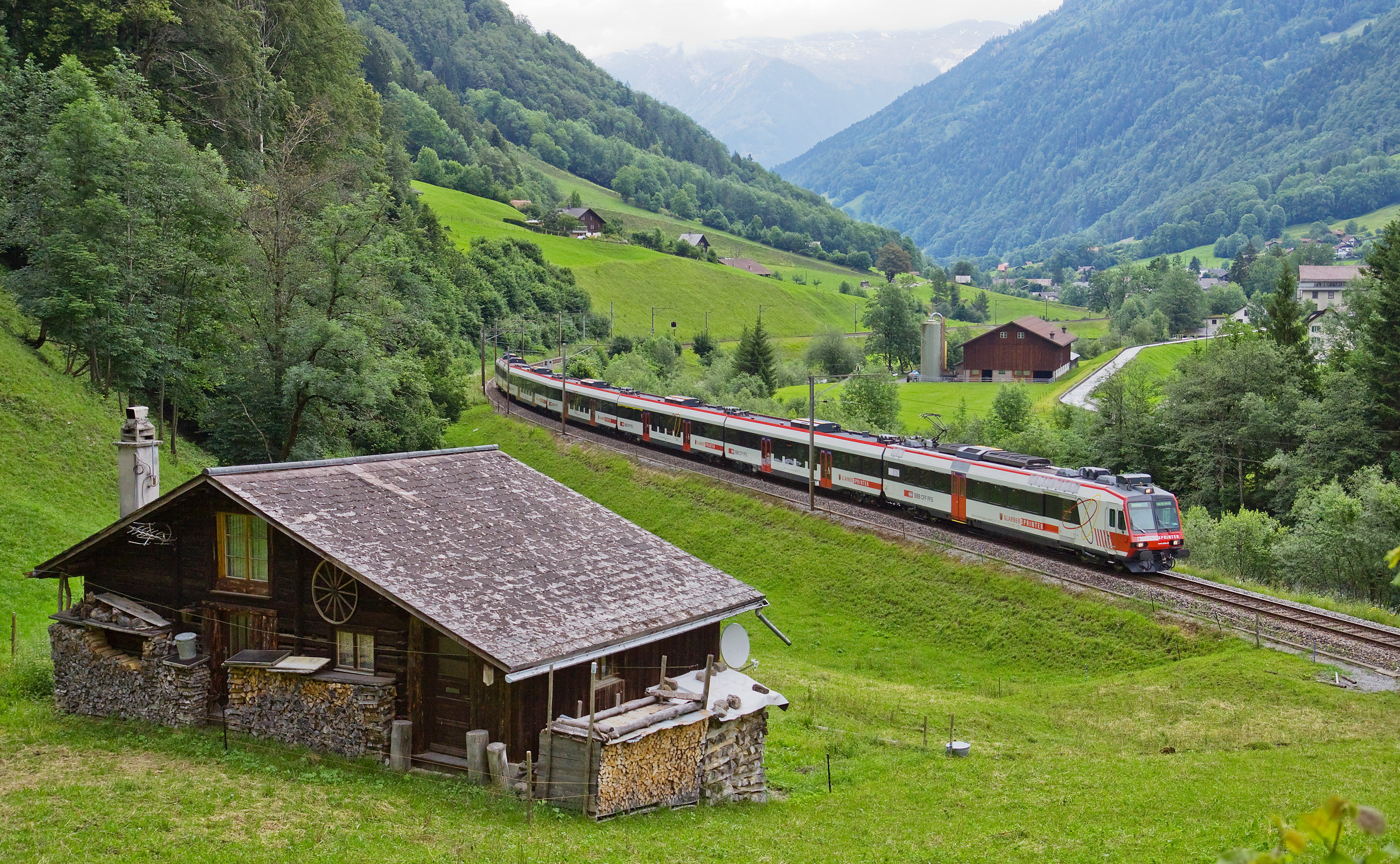 SBB RBDe 560 «Domino» in Glarner Sprinter service between Linthal Braunwaldbahn and Rüti GL